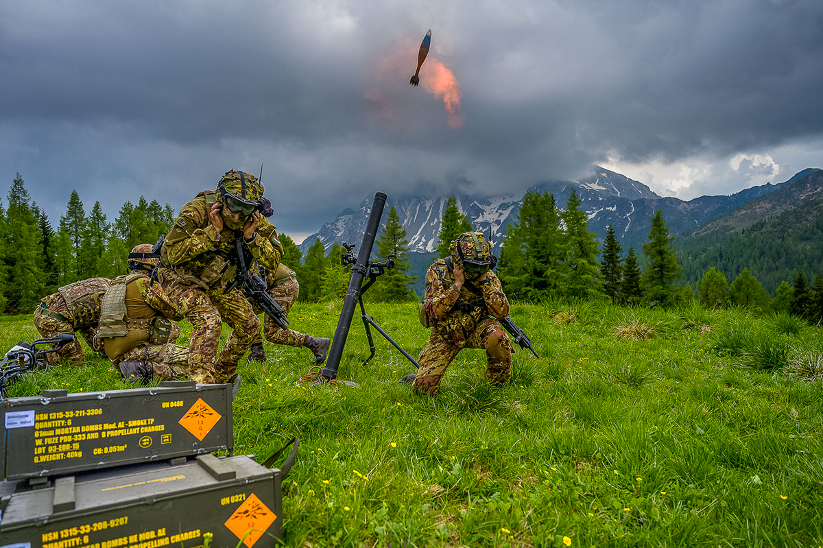 Italian Army 7th Alpini Regiment soldiers with an 81mm mortar during an exercise on Monte Bivera